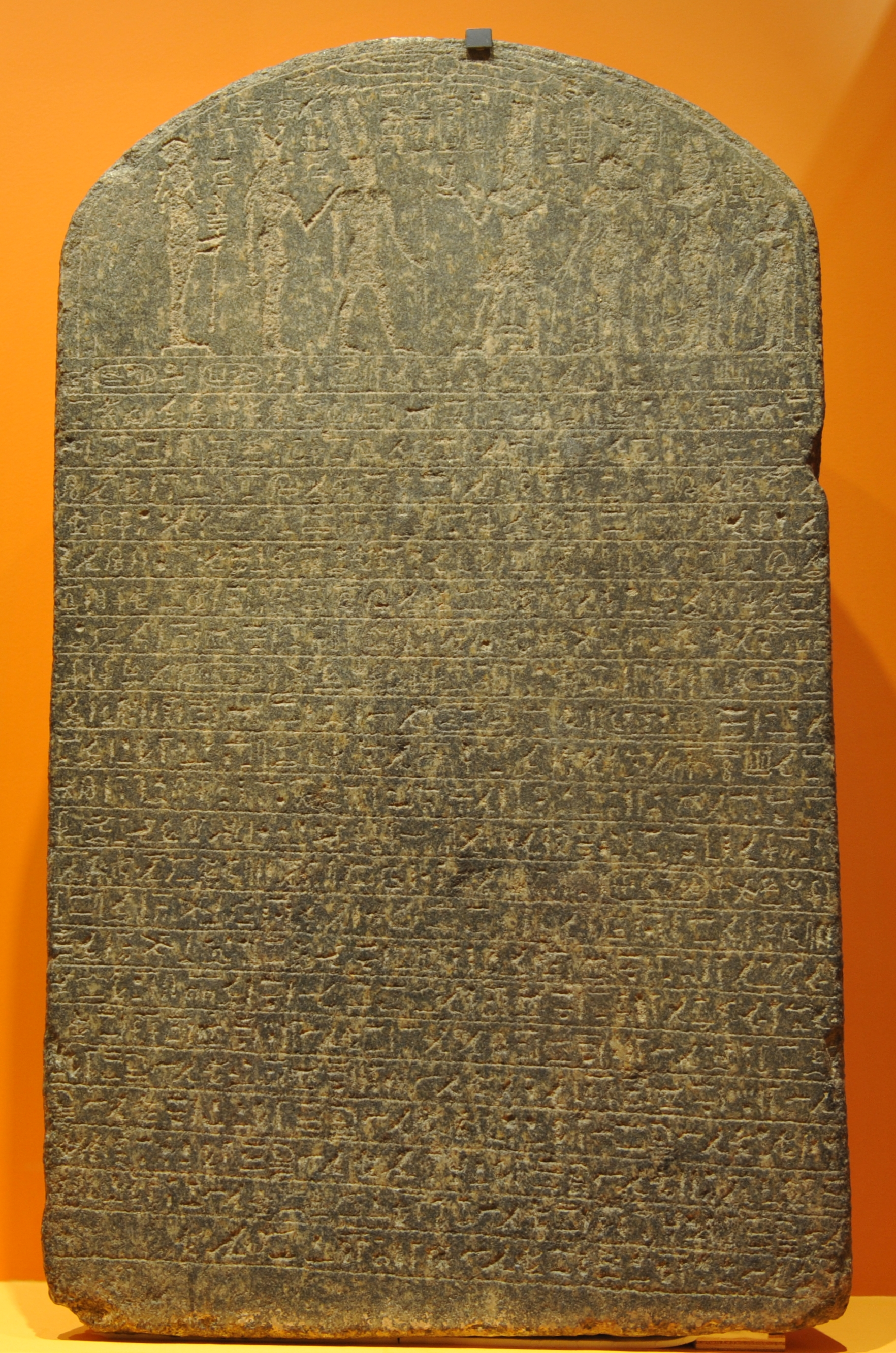 Meroitic Hieroglyphic writing